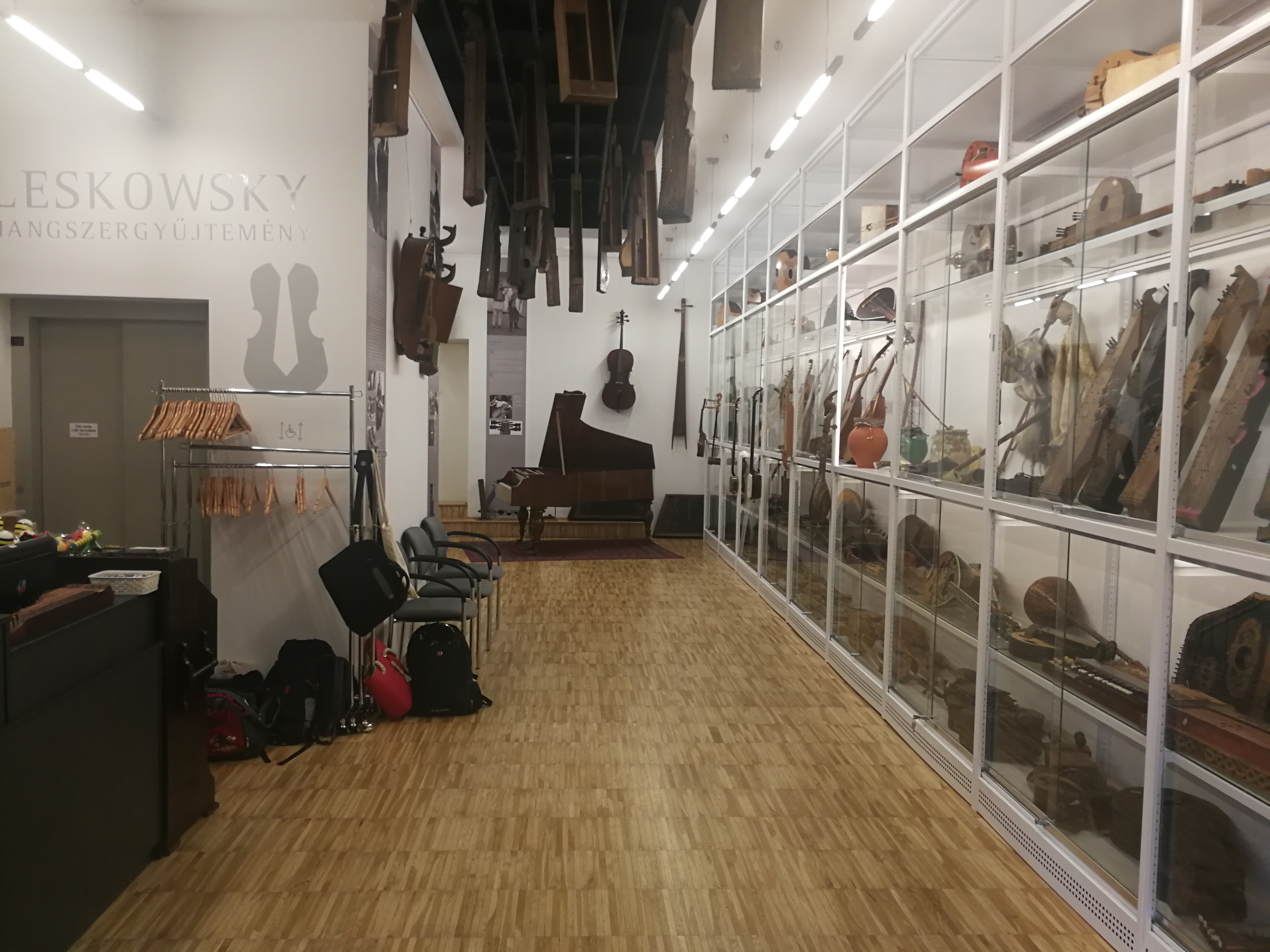 Museum former cinema in Kecskemét